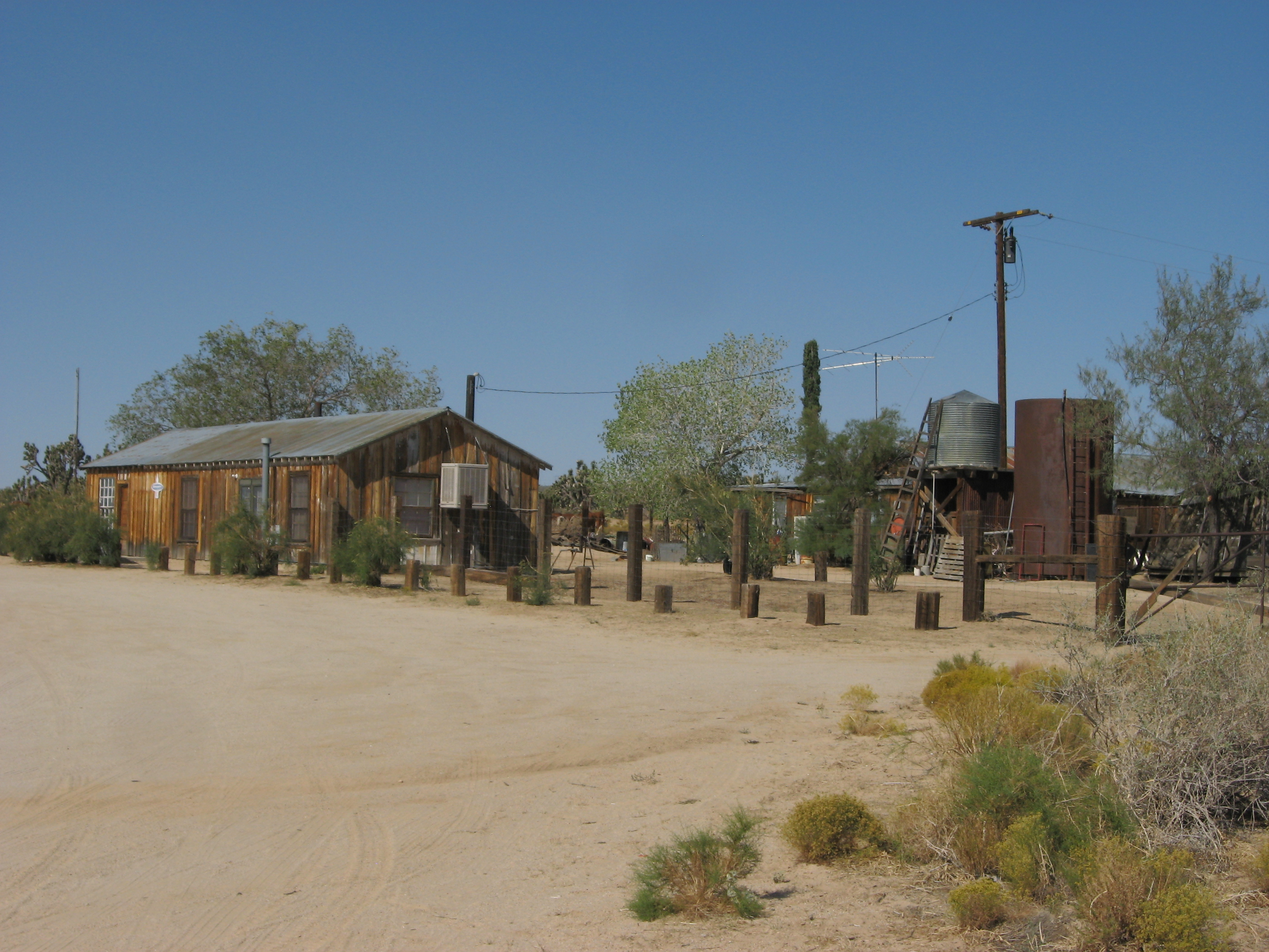 Cima is a small unincorporated community in the Mojave Desert of California, in the United States. Few people live in the area. Cima is located in the Ivanpah Valley, south of the Ivanpah Mountains and Interstate 15, and lies at an elevation of 4,175 feet (1,273 m). The town served as a railroad siding and a commercial center for ranchers and miners.